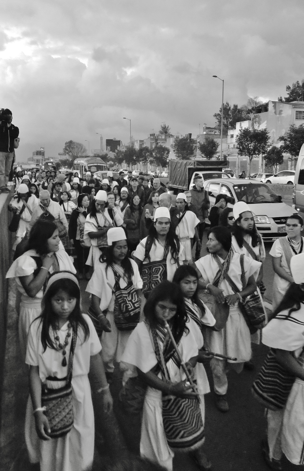 500px provided description: Conmmeomration of 100 years of the first visit of the arhuacos indigenous to Bogota from Sierra Nevada. Six months walking on the road to claim to colombian president for rights, autonomy and independency. [#culture ,#colombia ,#south america ,#sierra nevada ,#protest ,#indigenous ,#ethnic ,#demonstration ,#marcha ,#kogi ,#ancestral ,#protesta ,#cauca ,#Bogota ,#indigenas ,#arhuacos ,#misak ,#guambianos ,#wiwa ,#conmmemoration ,#kankuamo]